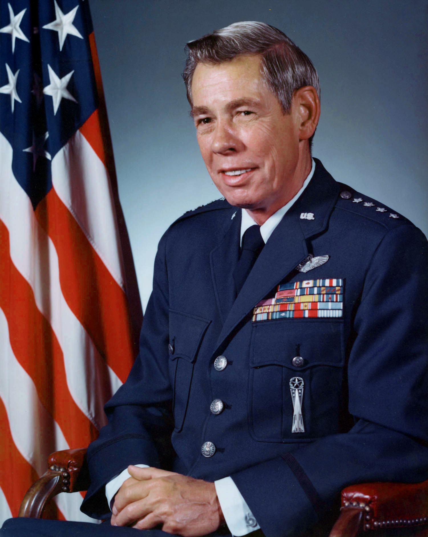 General Richard Hastings Ellis, USAF